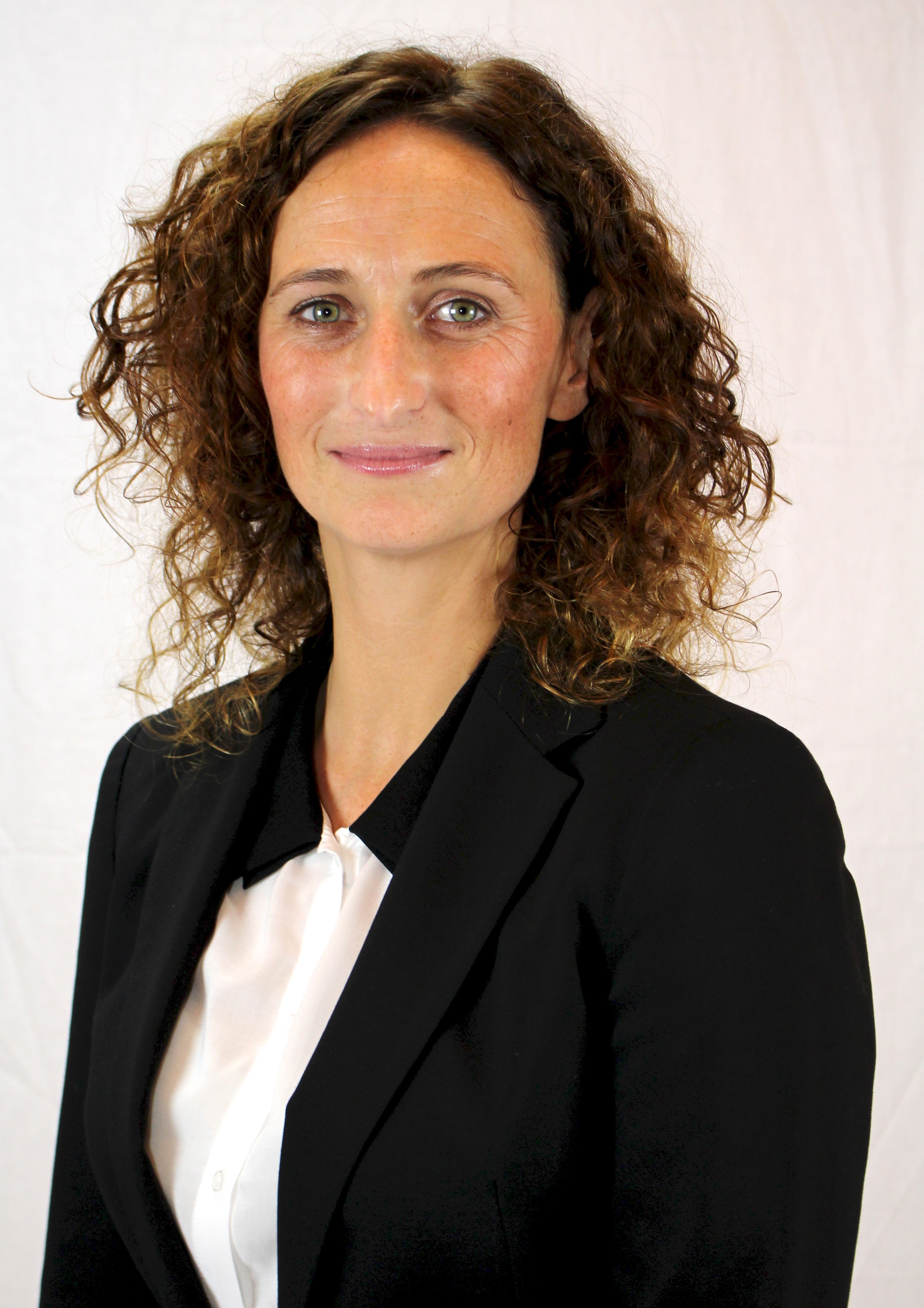 Lynn Boylan (Lynn Ní Bhaoigheallain) was selected by Sinn Féin to contest the 2014 EU election seat for Dublin at a convention held in Dublin on 29 September 2013.